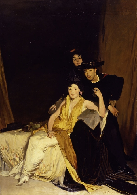 Philpot, Glyn Warren; The Dog-Rose (La zarzarosa); The Fitzwilliam Museum